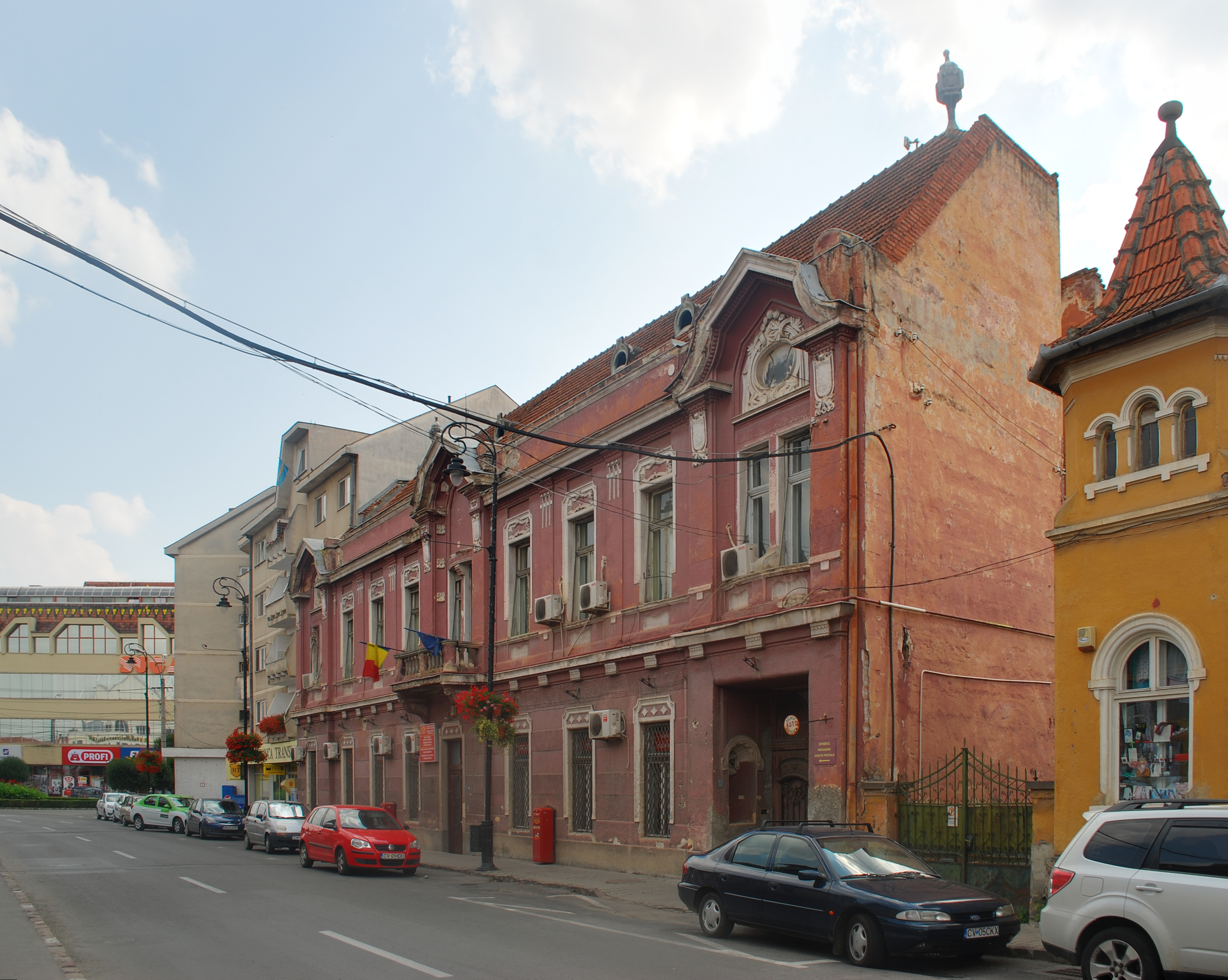 Former hotel "Hungaria", currently post office in Sfântu Gheorghe, Covasna County, Romania